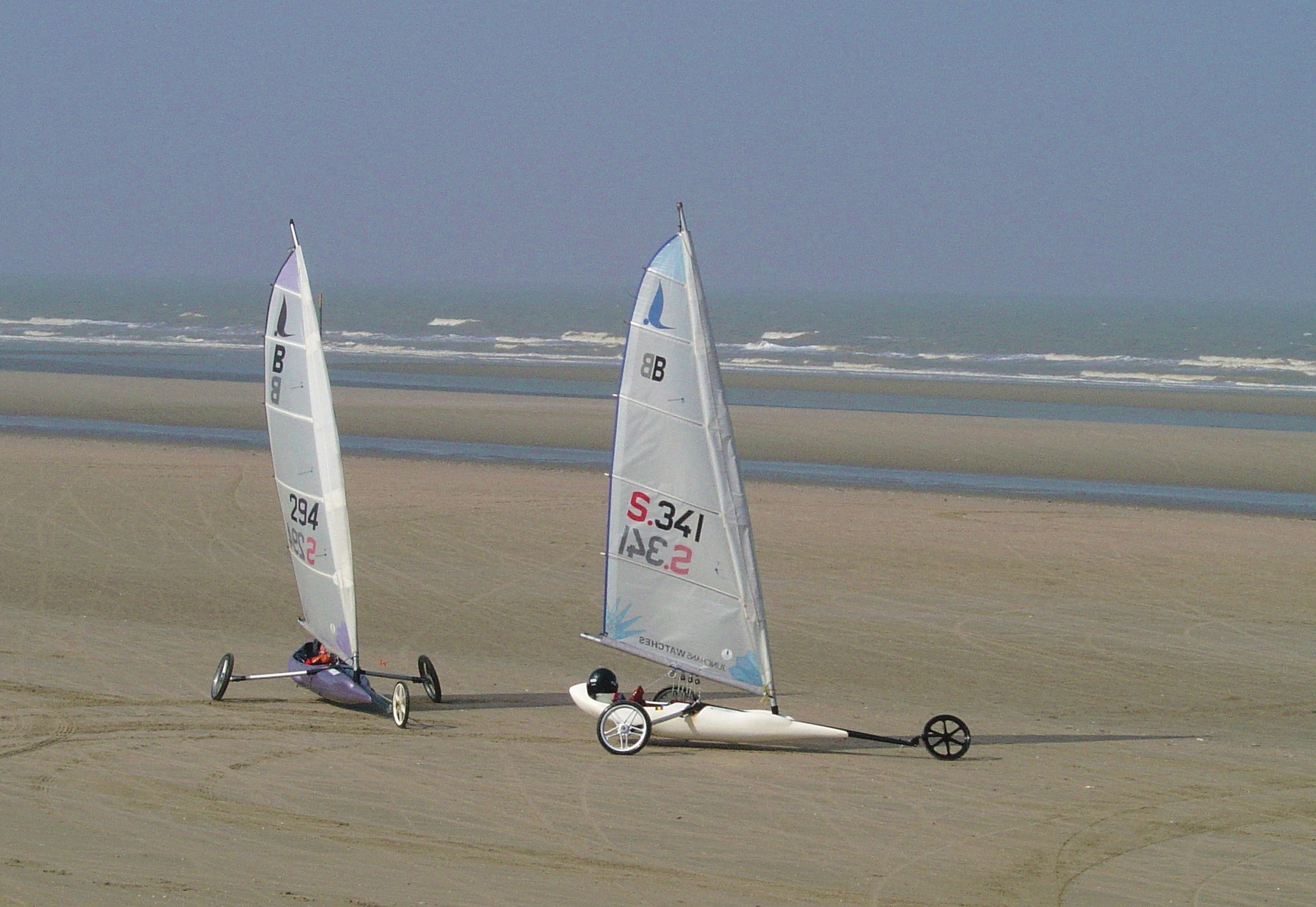 Land sailing in De Panne (Belgium) I took this picture in march 2006